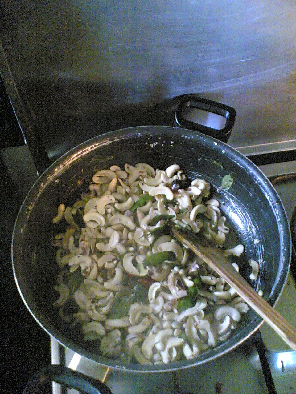 a konkani delicacy. tender cashew sautaed wih mustard, green chillies, bay leaves.